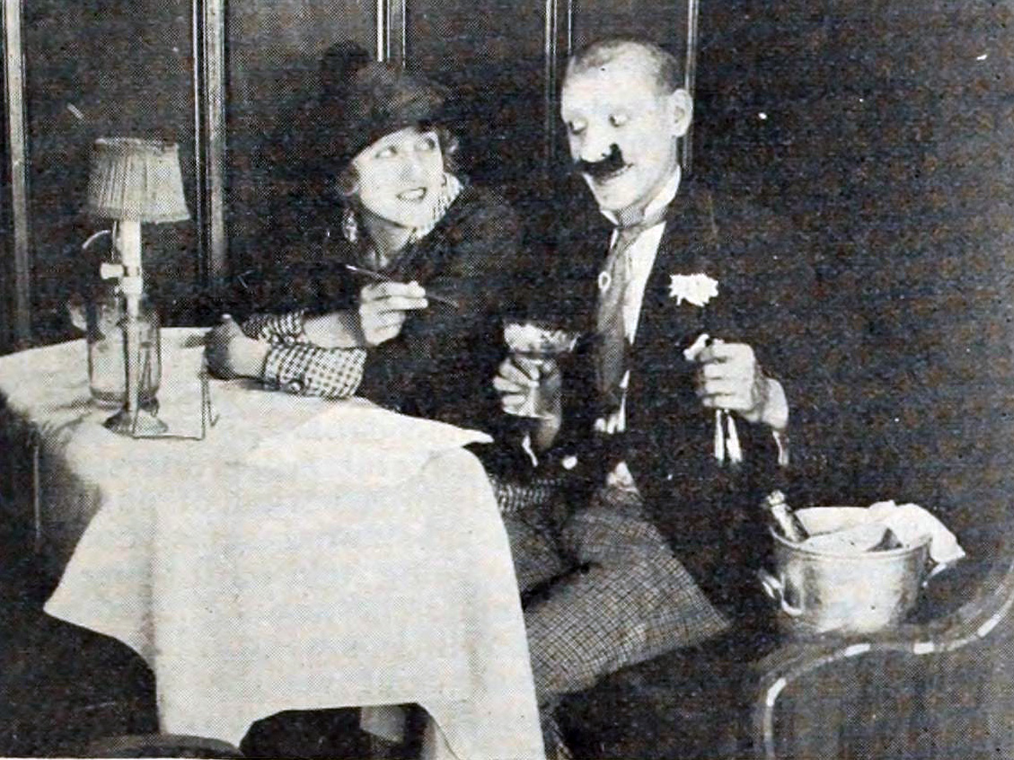 Illustration of an article in The Moving Picture World for "The Girl and the Tenor."